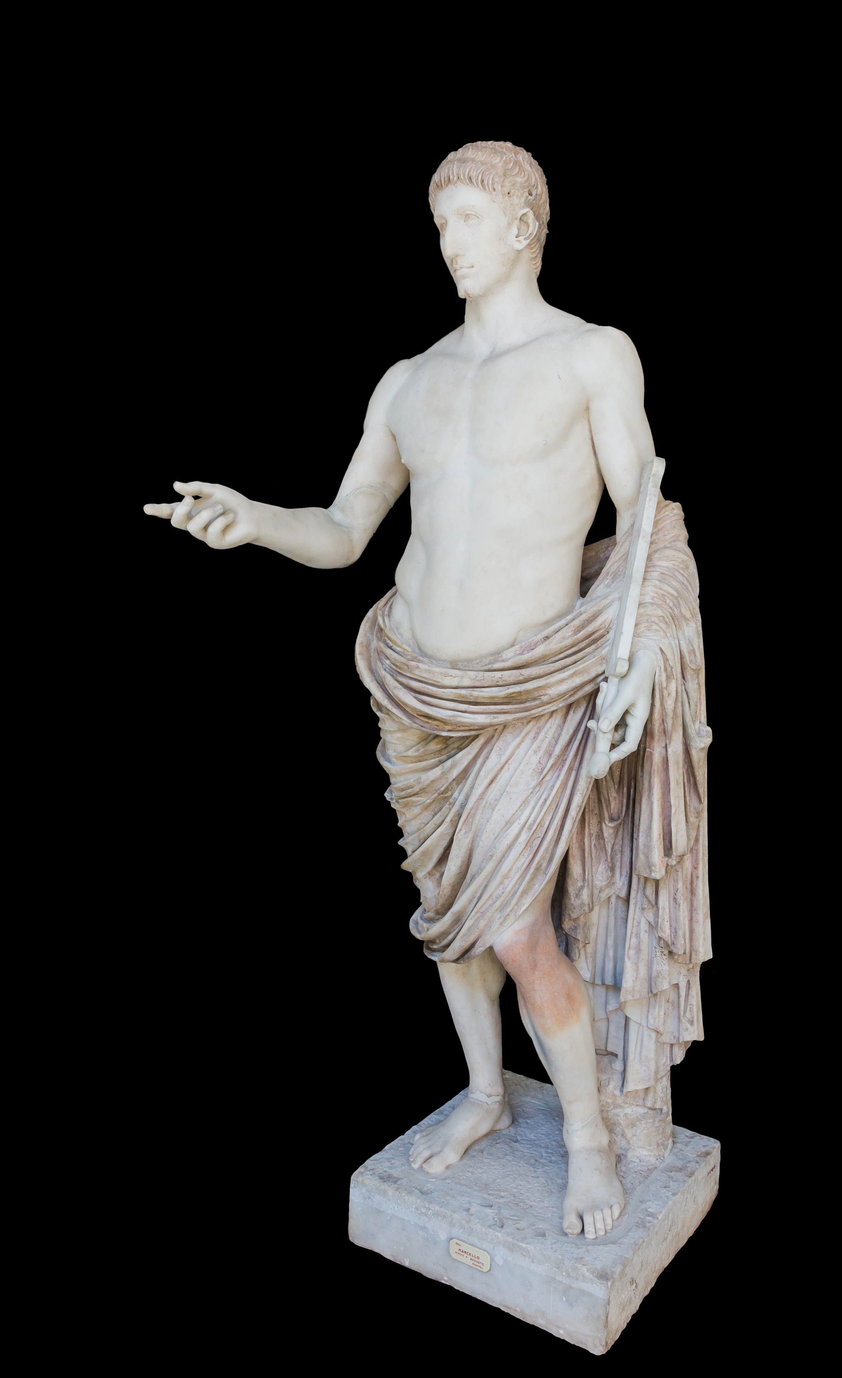 Statue of Marcus Claudius Marcellus (Julio-Claudian dynasty), or Nero Claudius Drusus (Drusus Major). Marble. 1st-century CE. From Pompeii. Naples National Archaeological Museum (Inventory)Native nameMuseo Archeologico Nazionale di NapoliLocationNaples, ItalyCoordinates40° 51′ 12.16″ N, 14° 15′ 01.75″ E Established1585Web control : Q637248 VIAF: 134828205 ISNI: 0000 0001 2289 7996 LCCN: n80044962 NLA: 35416902 GND: 1053223-7 WorldCat institution QS:P195,Q637248 inv. 8044